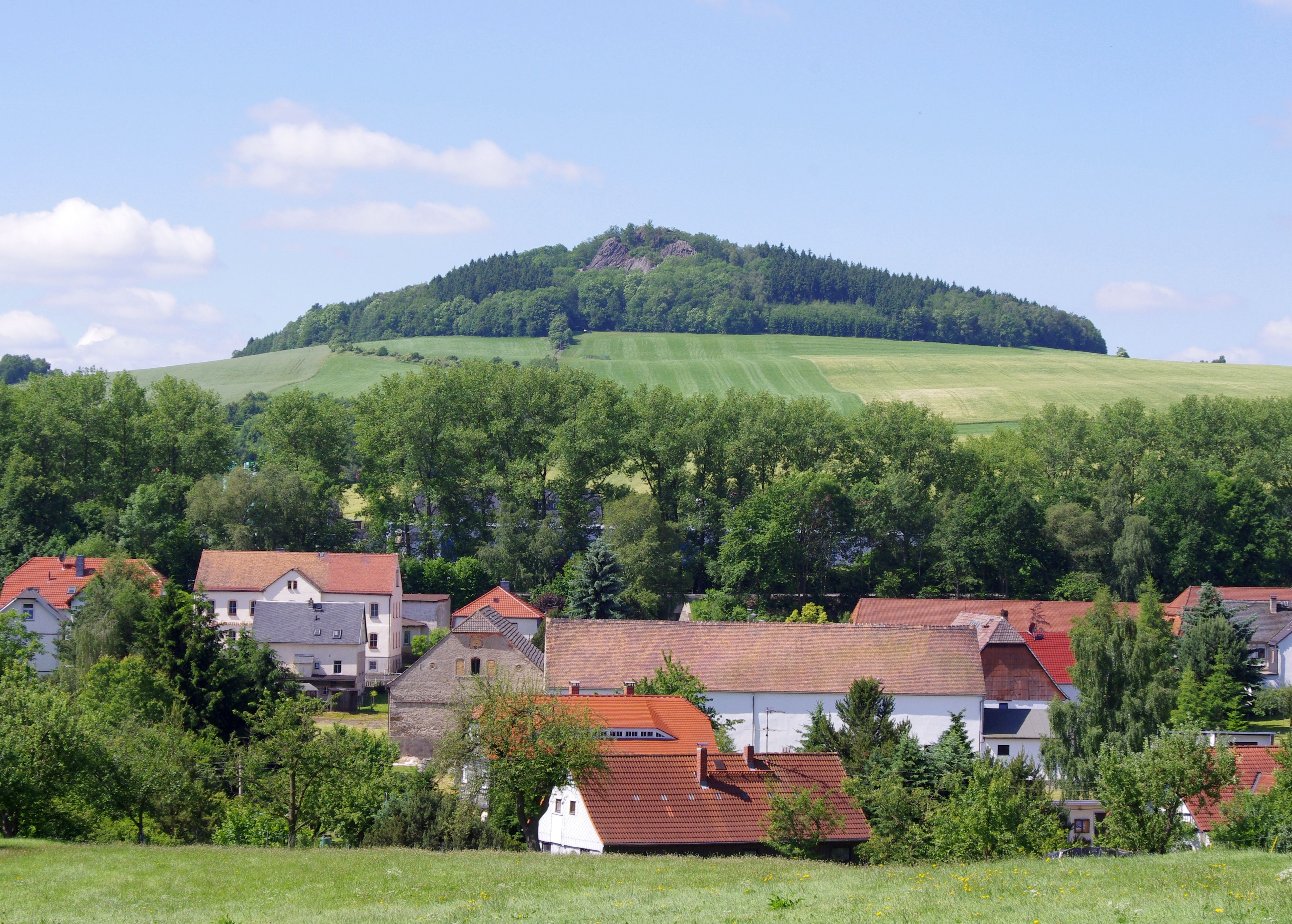 The mountain Spitzberg near Oderwitz, Germany.